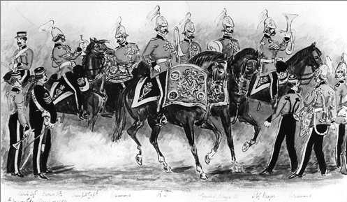 Mounted musicians of the 4th Royal Irish Dragoon Guards of the British Army, 1859